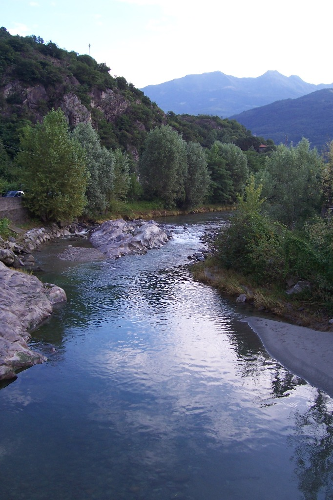 Oglio, Capo di Ponte, Val Camonica